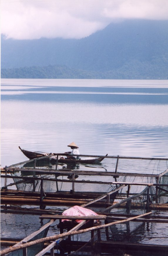 Photo taken by MichaelJLowe of Lake Maninjau, West Sumatra, Indonesia